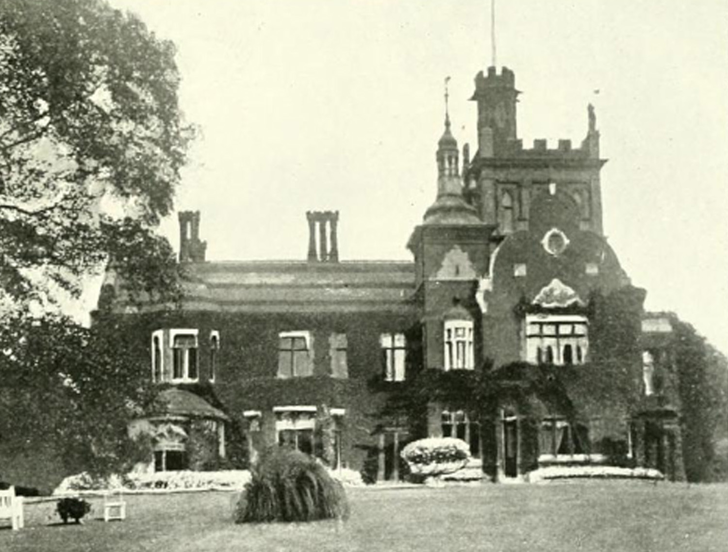 The south view of Caen Wood Towers circa 1900. This house is now Athlone House, Highgate, UK